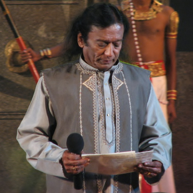 Photograph (Cropped) of acclaimed Sri Lankan musician,Victor Ratnayaka (වික්ටර් රත්නායක)